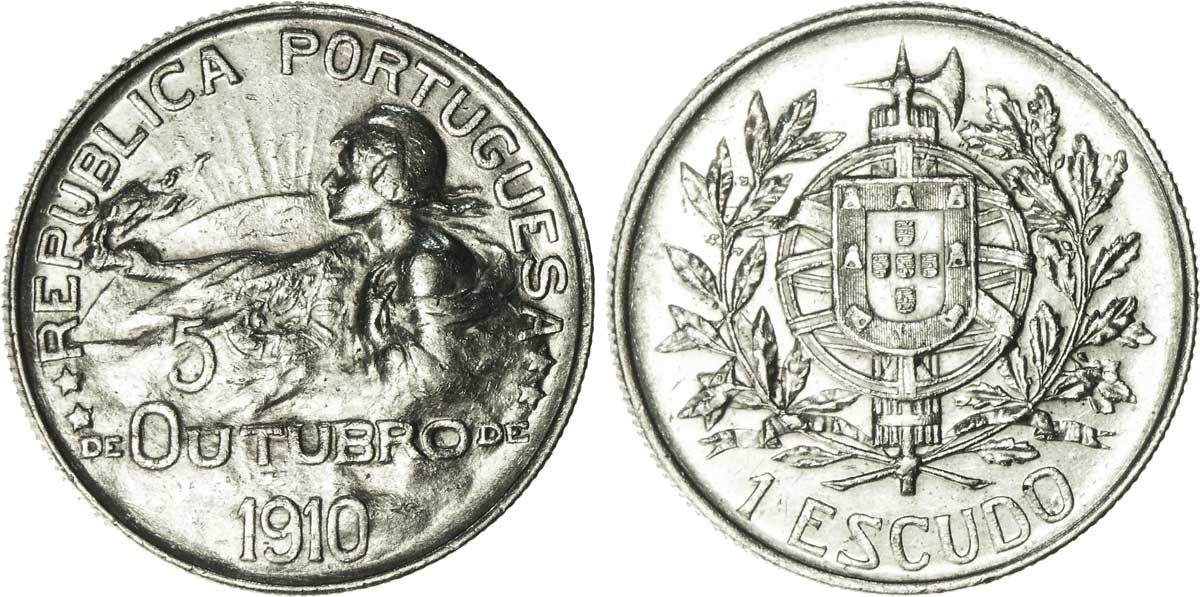 1 Escudo commémorant la naissance de la République promue le 5 octobre, escudo frappé en 1914